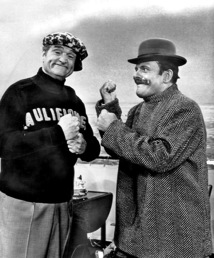 Photo of Red Skelton as boxer Cauliflower McPugg with guest star Terry-Thomas on The Red Skelton Show.